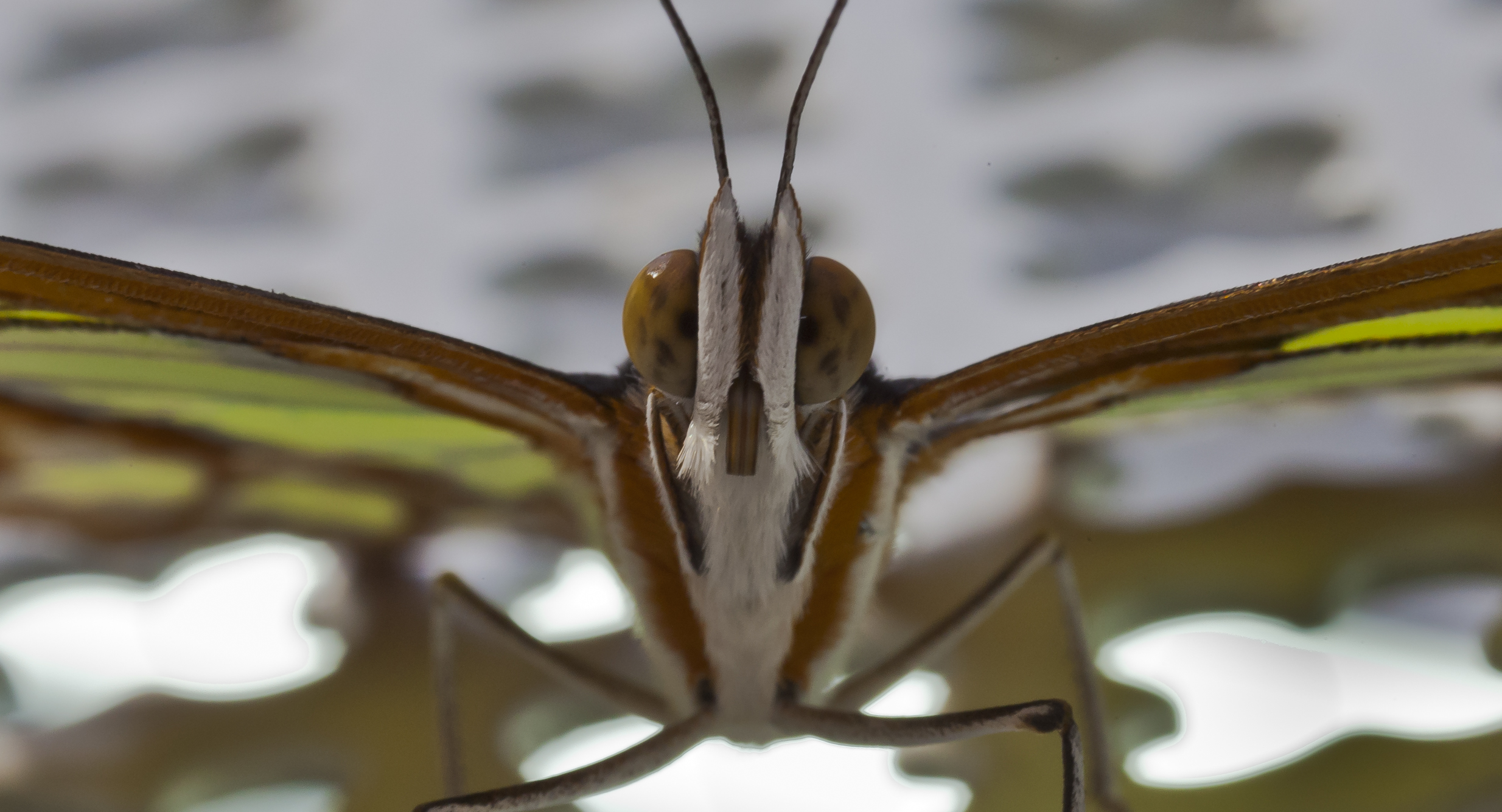 Siproeta stelenes, Munich Botanic Garden, Germany